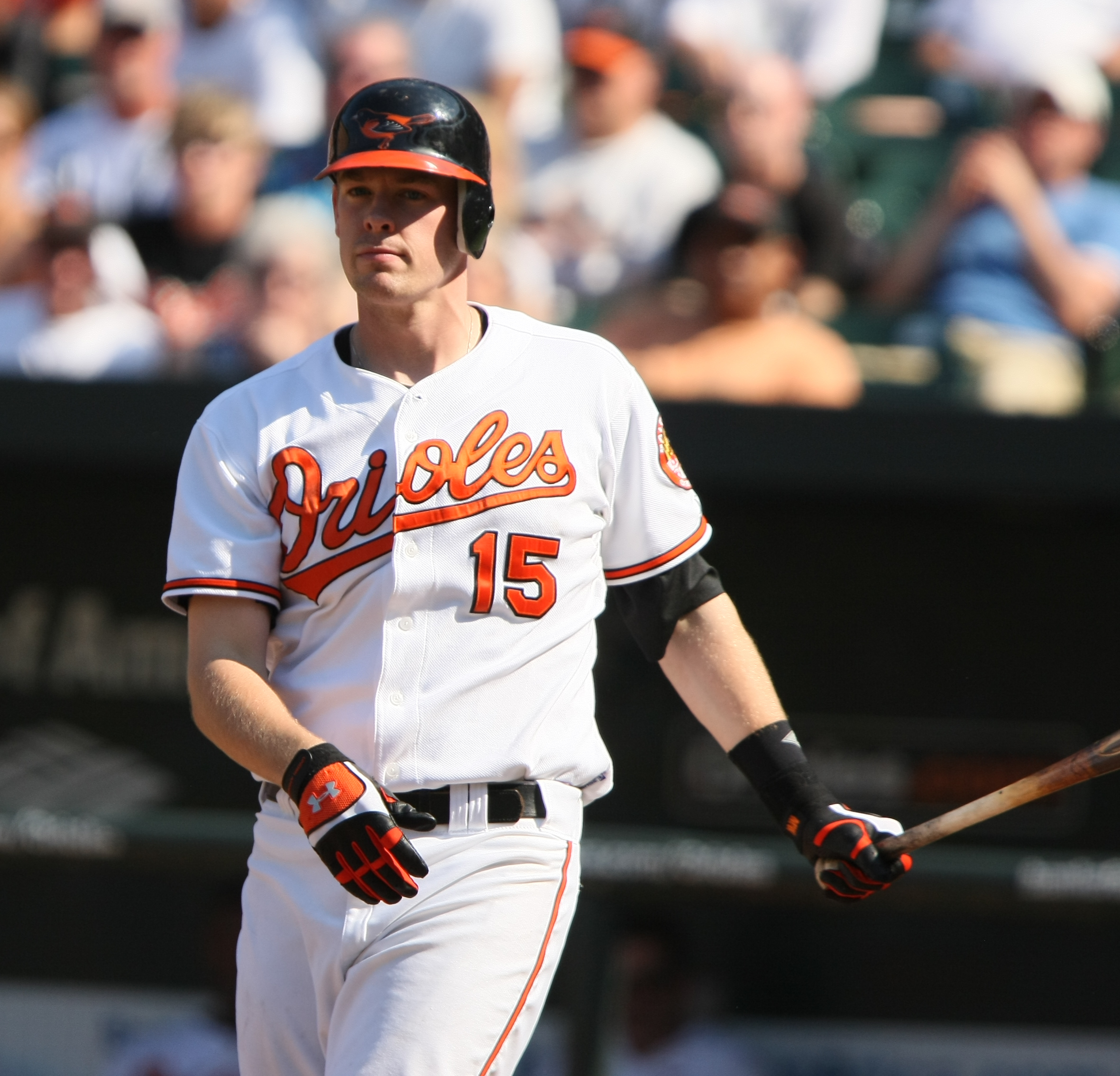 Cleveland Indians v/s Baltimore Orioles 08/30/09